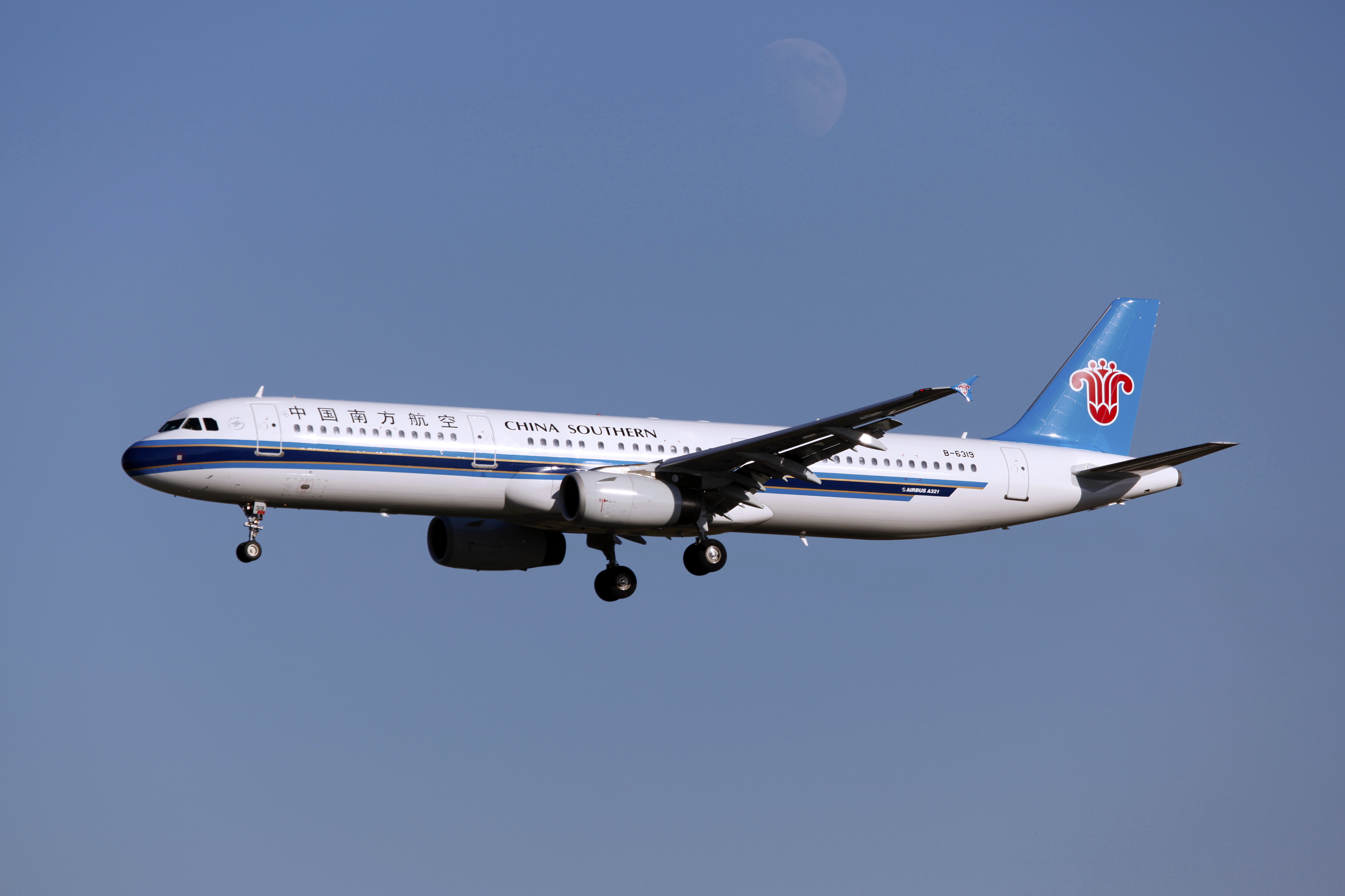 B-6319 | China Southern Airlines | Airbus A321-231 | Beijing Capital International Airport [PEK]